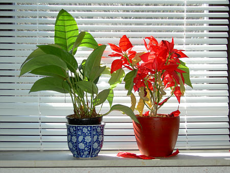 Window with Venetian blind, potted plants